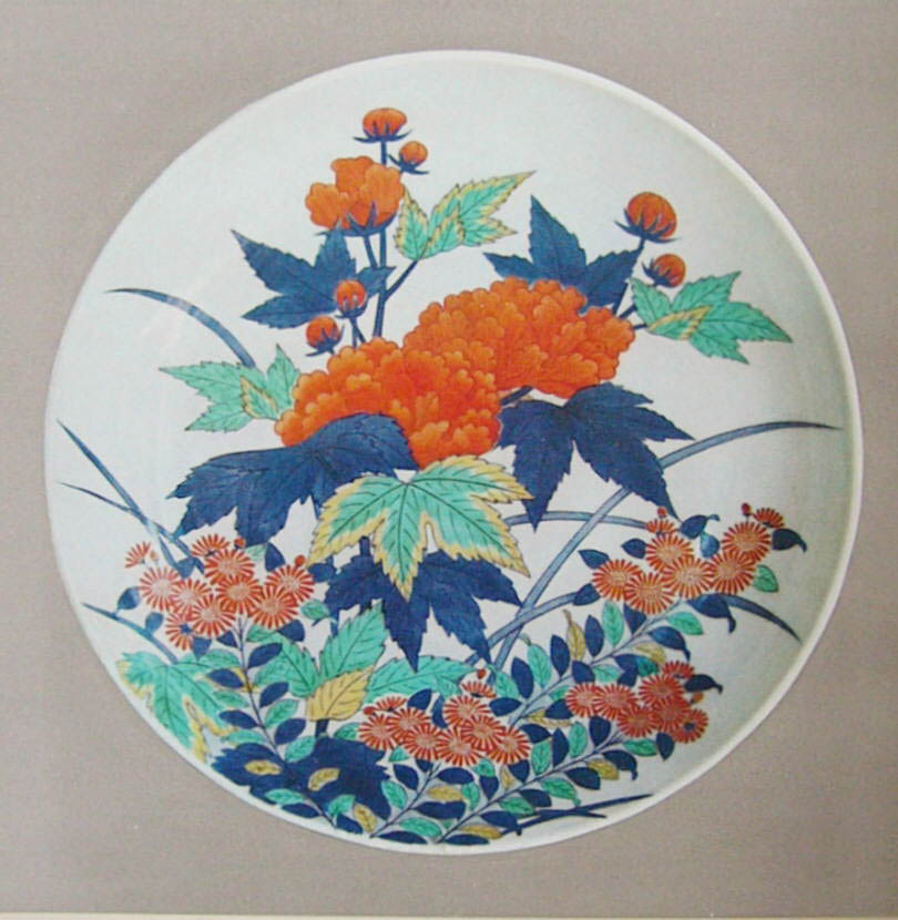 Large Nabeshima Plate with Floral Design 31.6cm diameter, 7.7cm height , Arita, Saga, Japan